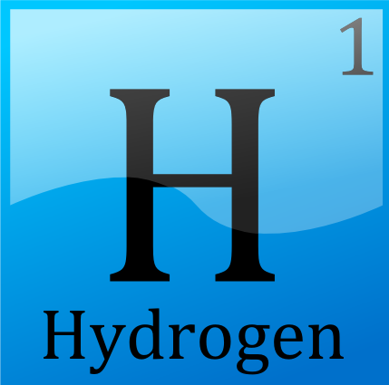 A periodic-table style picture for the element Hydrogen